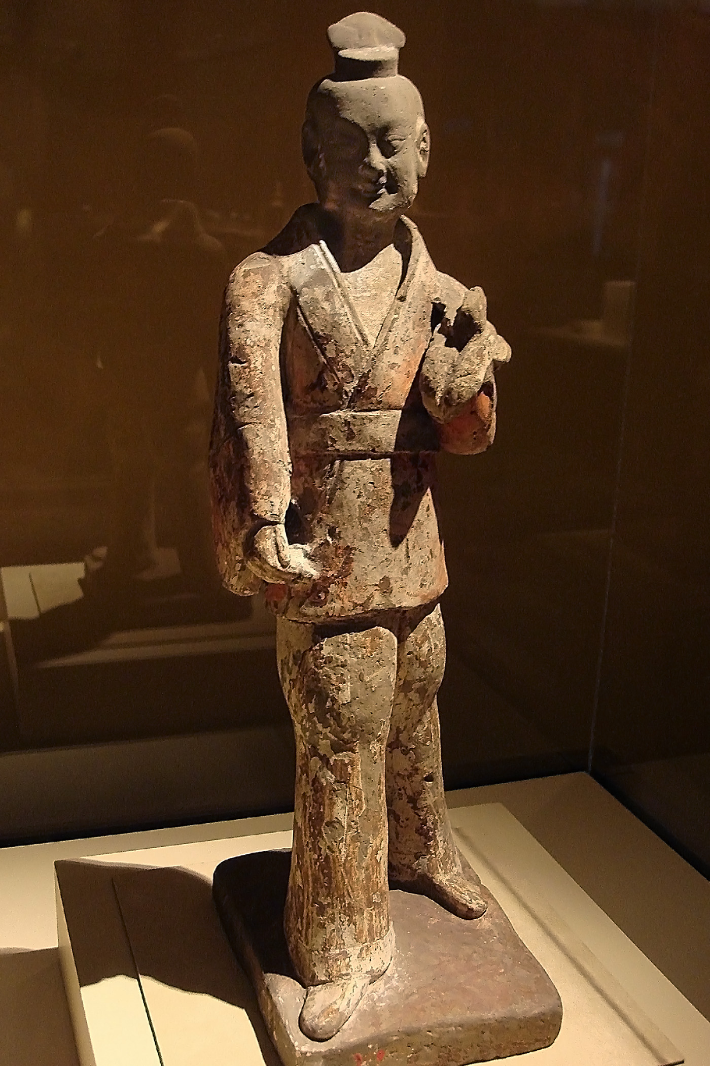 Painted figure of an officer. Northern Dynasties (A.D. 386 - 581) and Western Wei Dynasty (A.D. 535 - 556) Excavated at Hanzhong, Shaanxi Province, 1977 This officer is clad in a Xianbei military outfit, with a tunic and wide trousers; his hair is tied on top of his head, under a small hat. He likely carried a weapon of some sort.